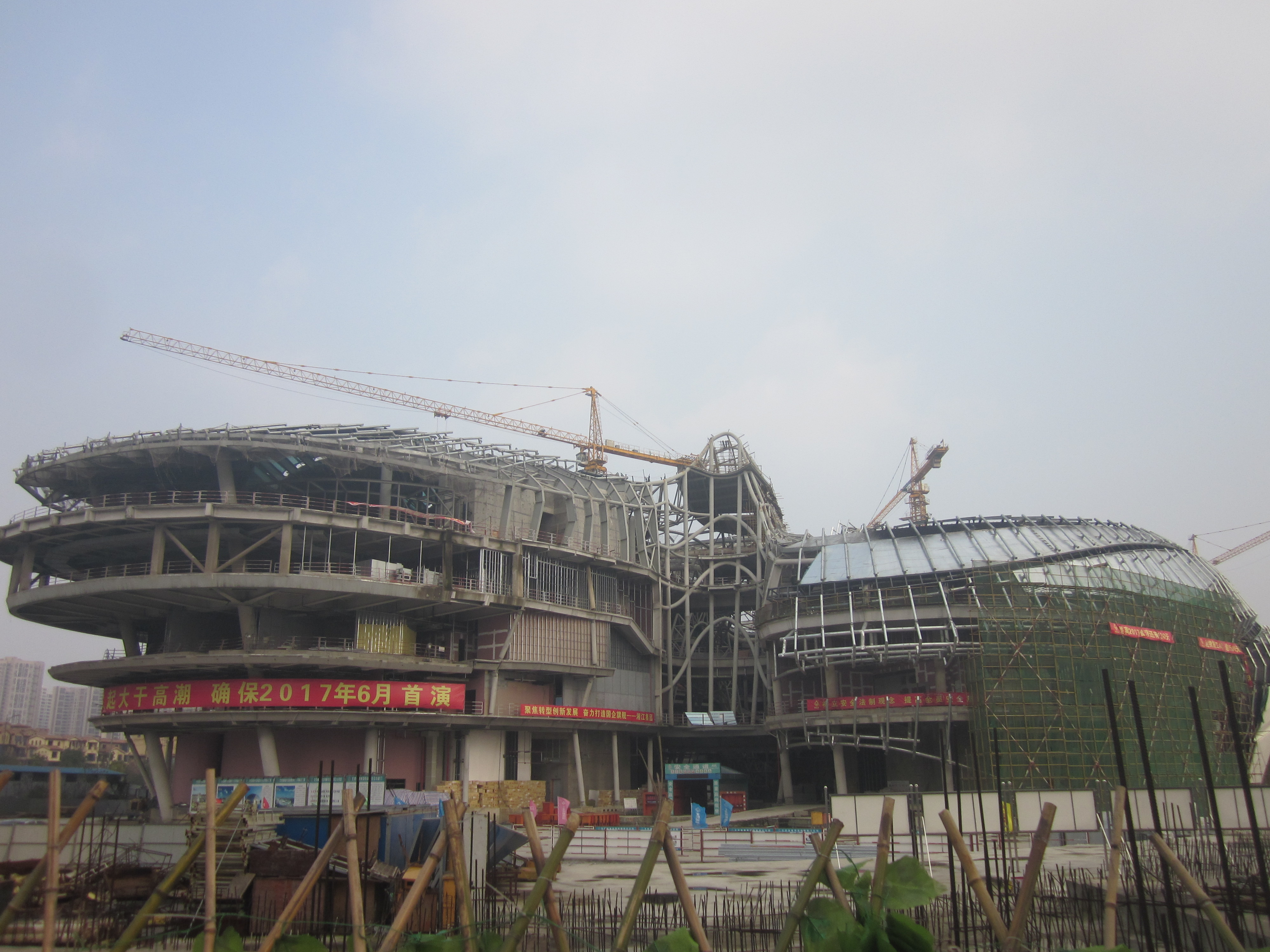 The Grand Theatre of Meixi Lake Culture and Arts Center is being constructed.